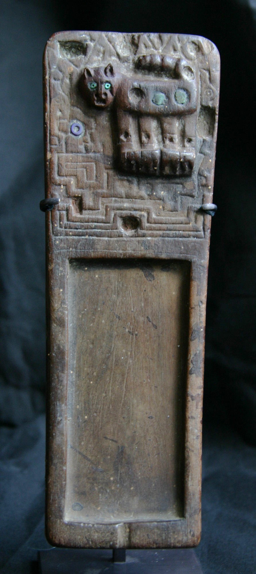 rapero (snuff tablet), Tiwanaku 200-600 A.D.